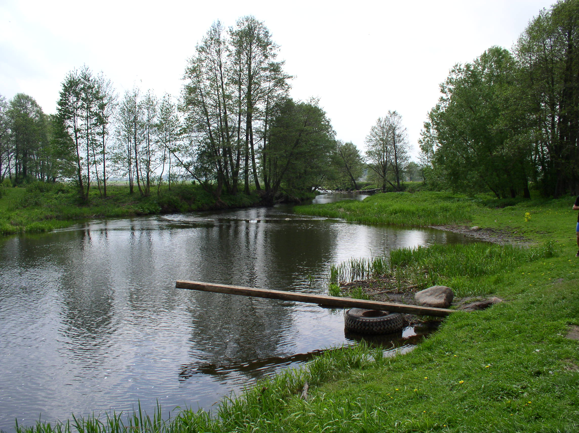 Usa river, Belarus.